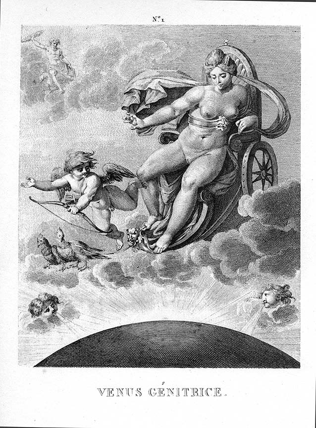 Venus Genetrix, with Jupiter and a swan top left